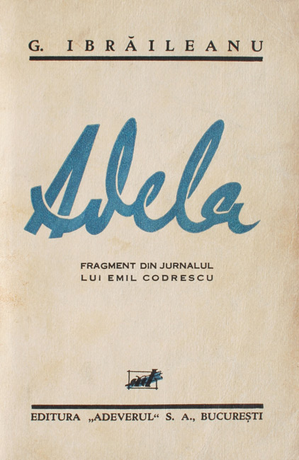 Title page of the first edition of the novel Adela